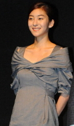 Wang Ji-won in July 2011